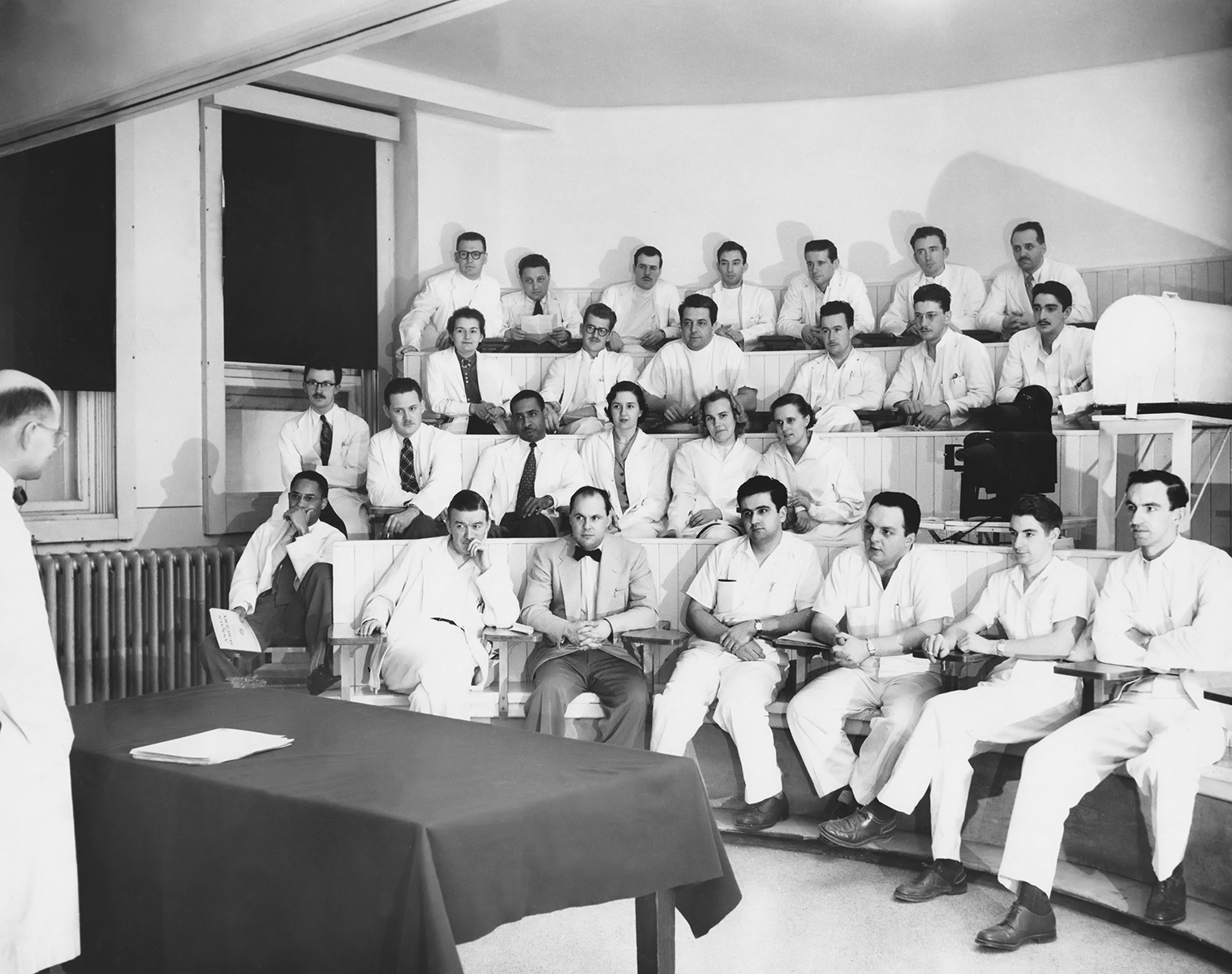 Luc Chicoine en classe de médecine